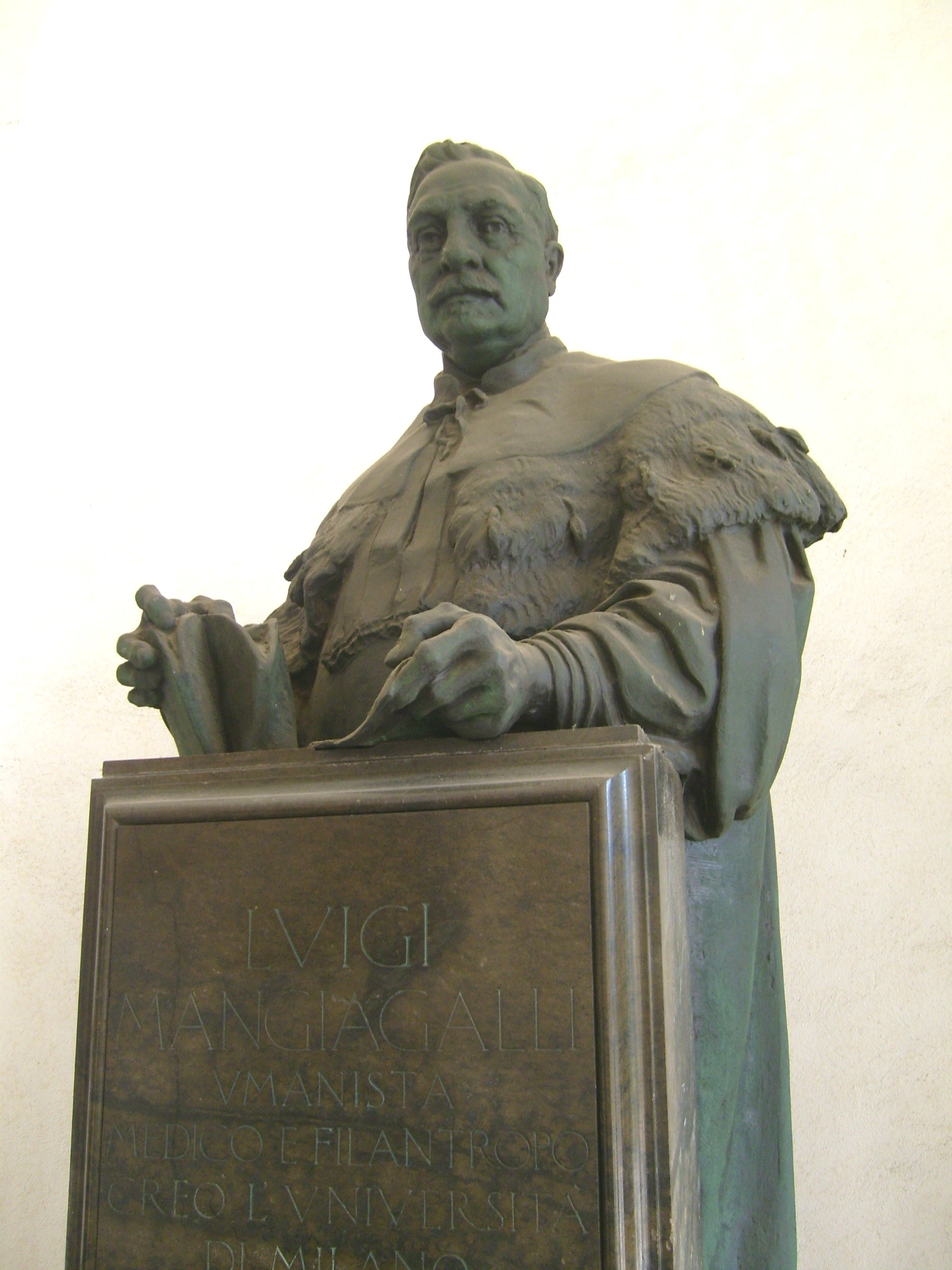 Luigi Mangiagalli's statue, Ca' Granda, Milan.